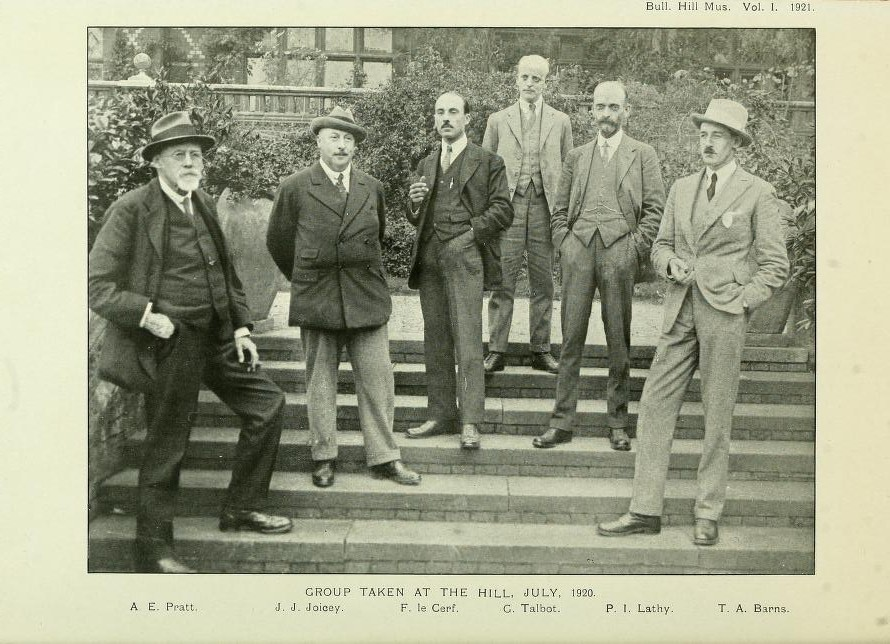 Entomologists at the Hill Museum in Witley, Surrey. The Hill Museum was a private butterfly museum which held many thousands of scientific specimens from all continents. The collection is now in the Natural History Museum, London Antwerp Edgar Pratt, Collector, entomologist. James John Joicey, Owner of the Museum. Ferdinand Le Cerf, French entomologist George Talbot, Curator Percy Ireland Lathy Thomas Alexander Barns, Explorer and collector.